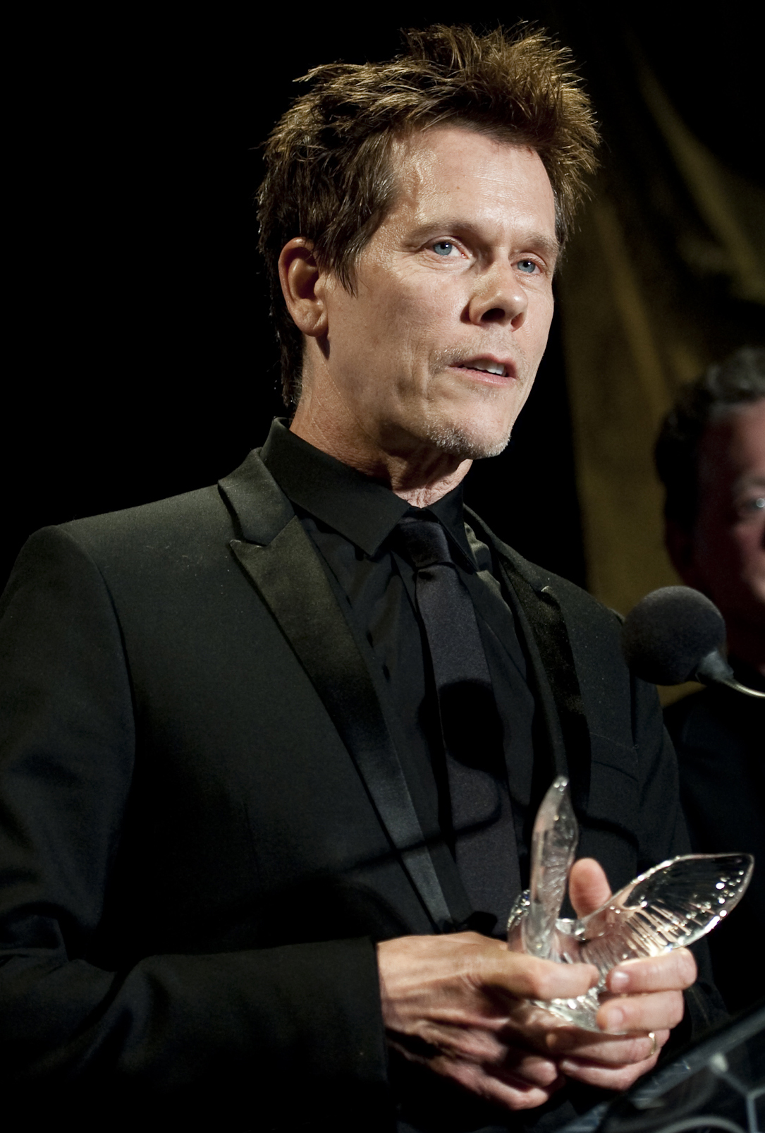 Kevin Bacon addresses audience members after being presented the Merit Service Award, along with his brother Michael Bacon, at the annual USO Gala at the Ritz Carlton in Arlington, Virginia on April 14, 2010.